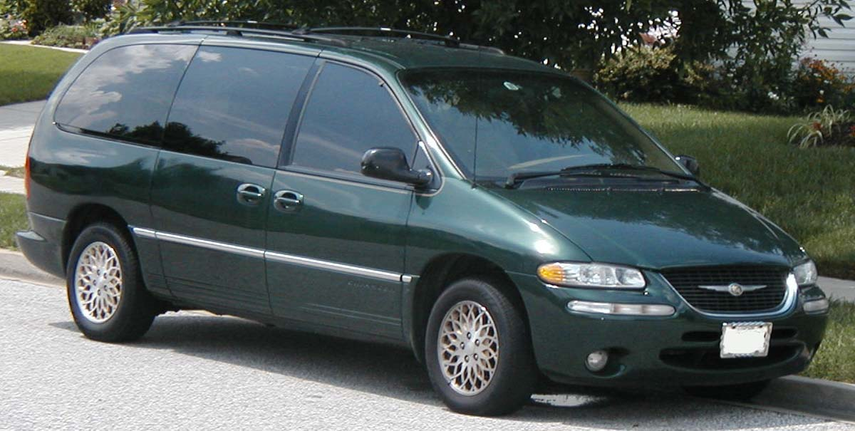 1996-2000 Chrysler Town & Country LWB photographed in USA.